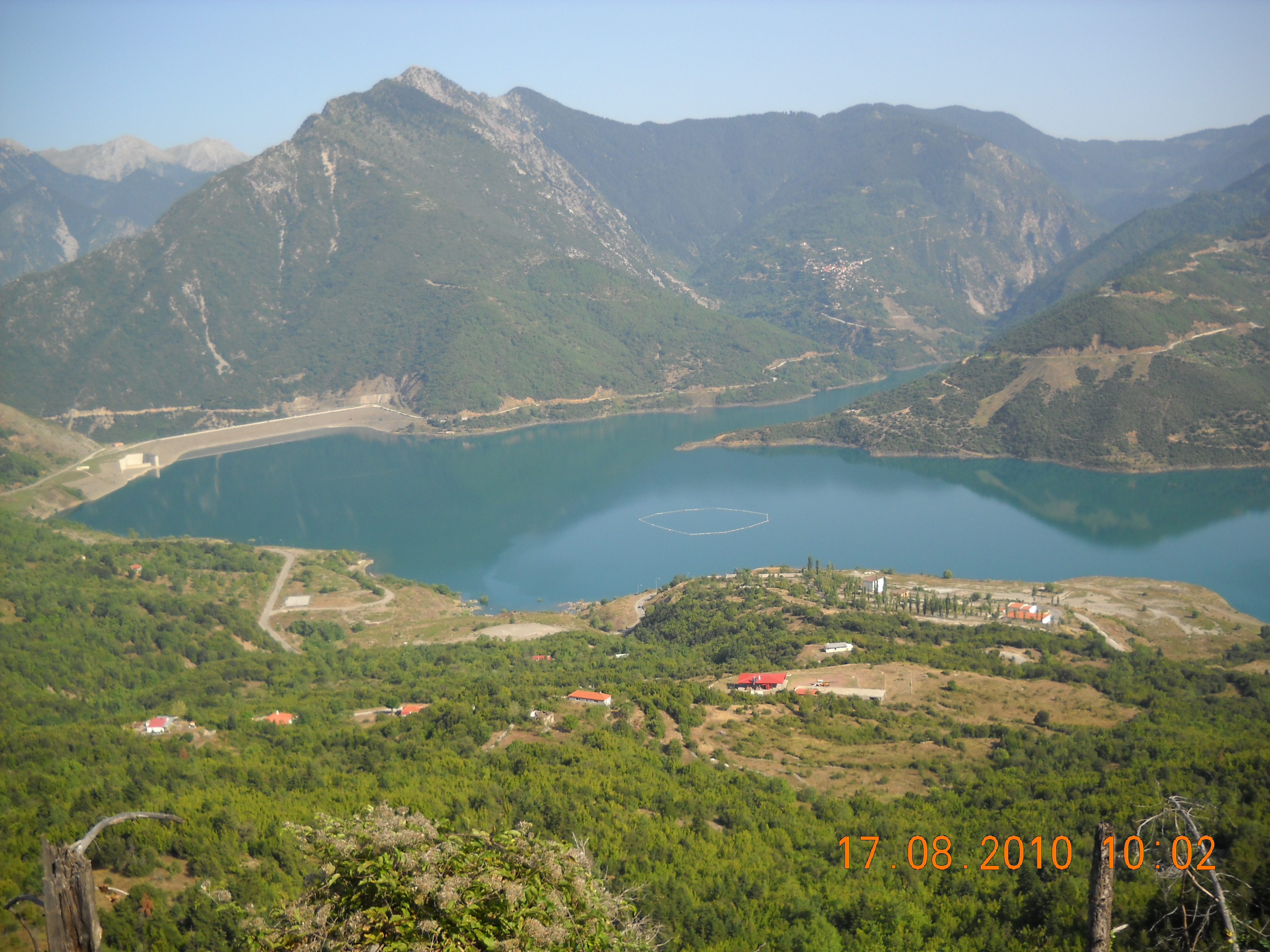 Agios Dimitrios, Aitoloakarnanias